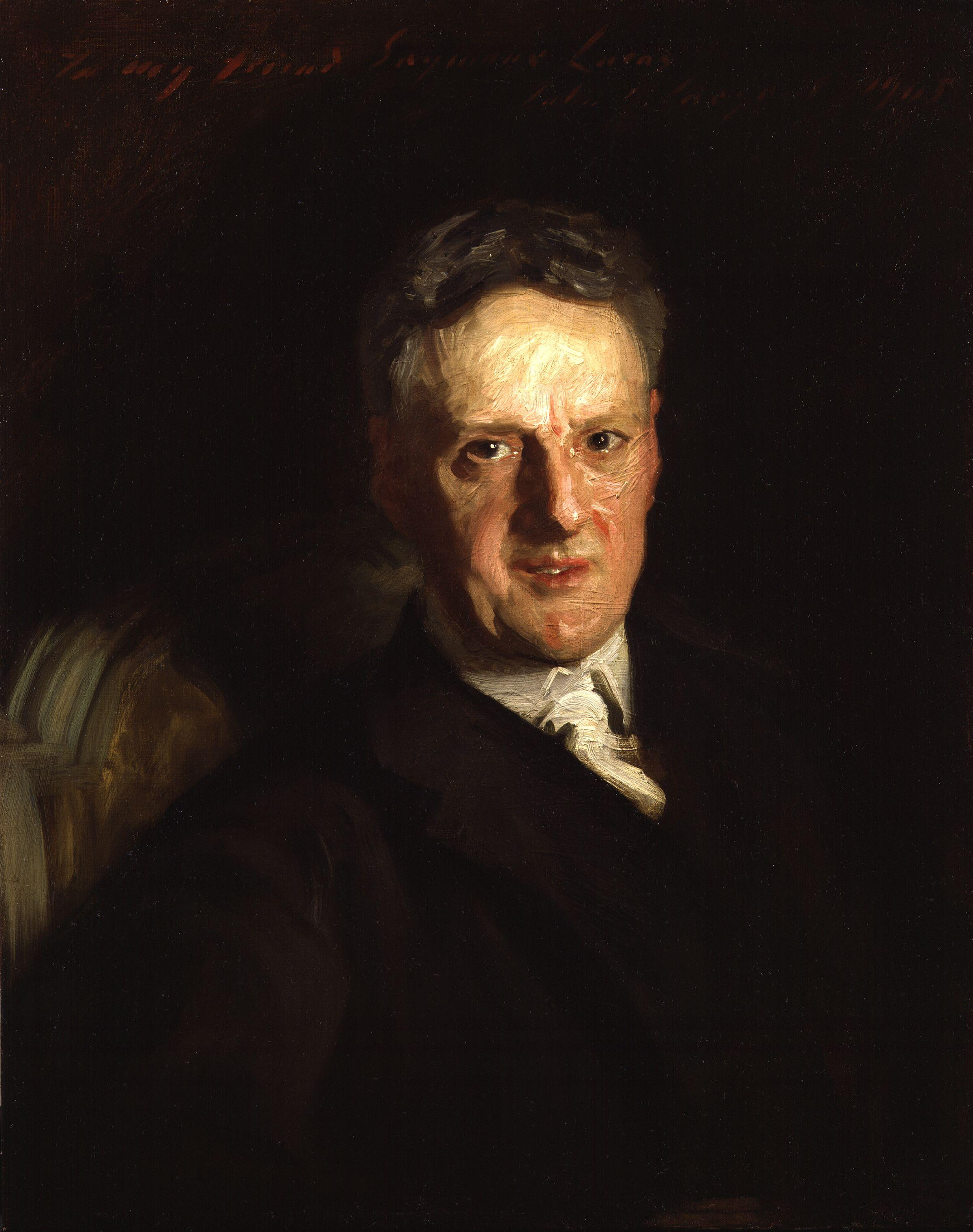 John Seymour Lucas, by John Singer Sargent (died 1925), given to the National Portrait Gallery, London in 1978. All images in this batch have been confirmed as author died before 1939 according to the official death date listed by the NPG.